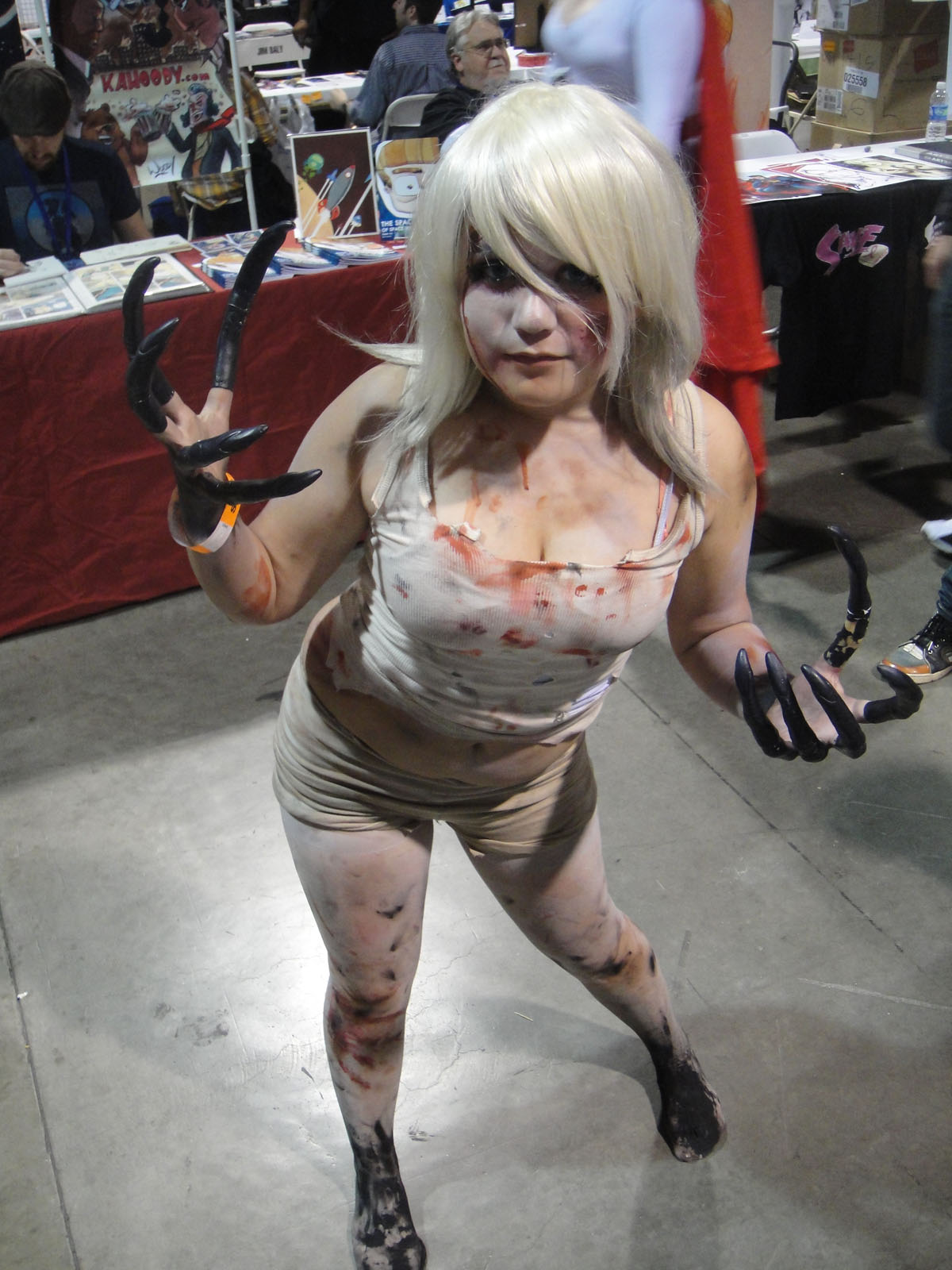 photo 2011 Pop Culture Geek taken by Doug Kline If you're interested in higher resolution versions of my images, contact me via my profile page.